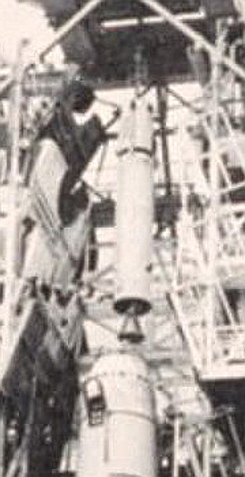 Able second stage of a Thor-Able rocket being set in place prior to launching TIROS I.